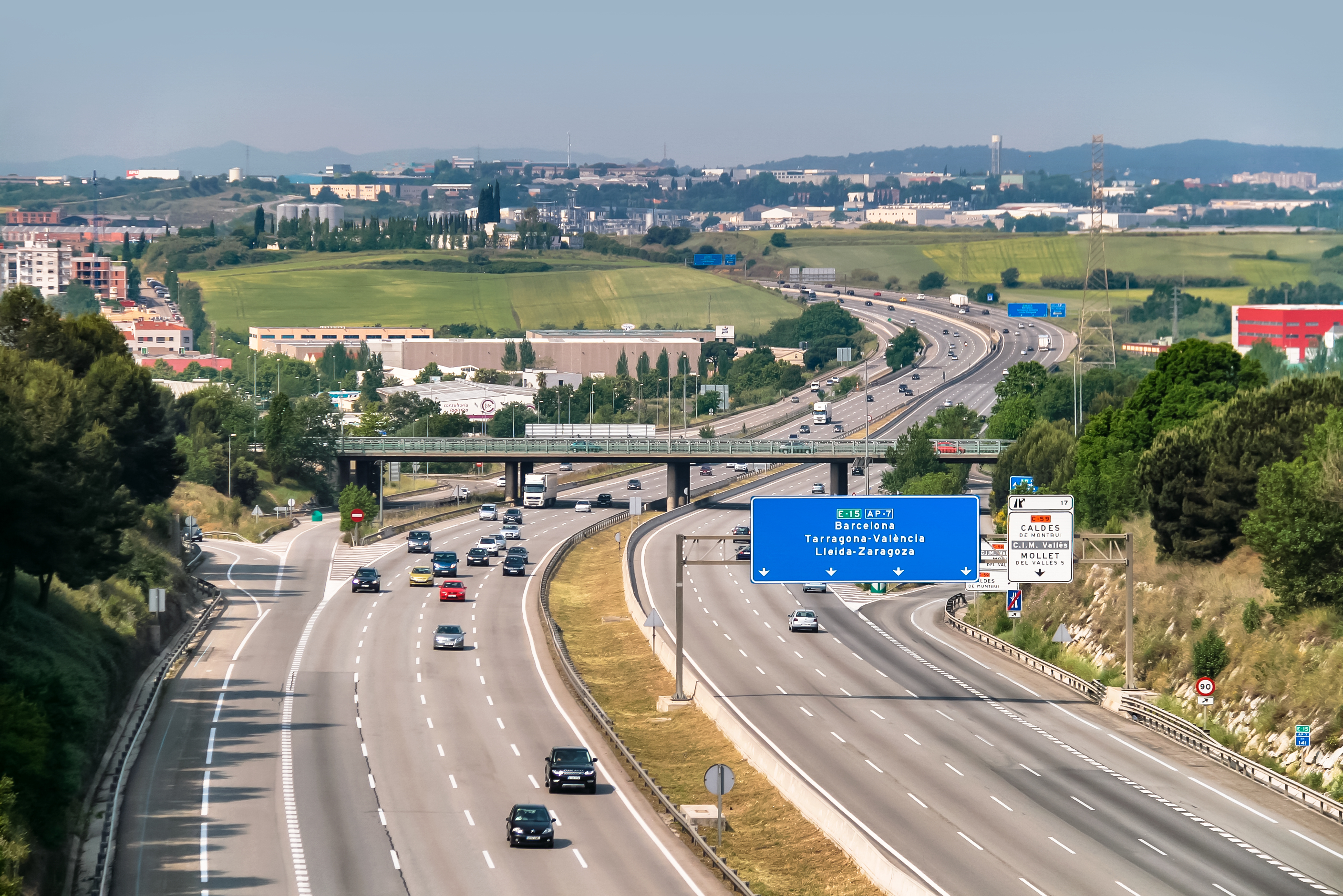 Autopista AP-7 in Mollet del Vallès (Spain).